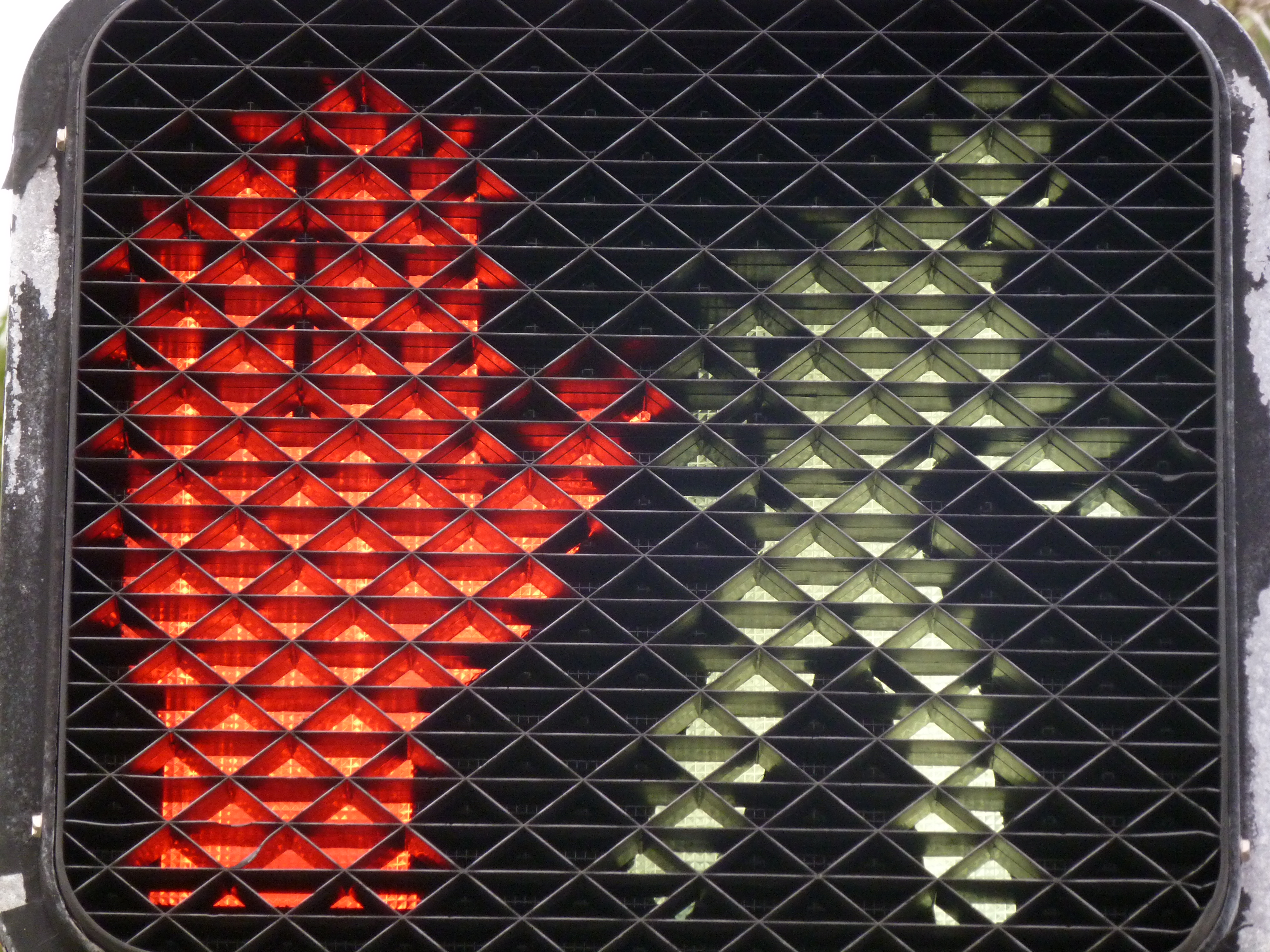 A standard crosswalk don't walk sign with both sides lit.